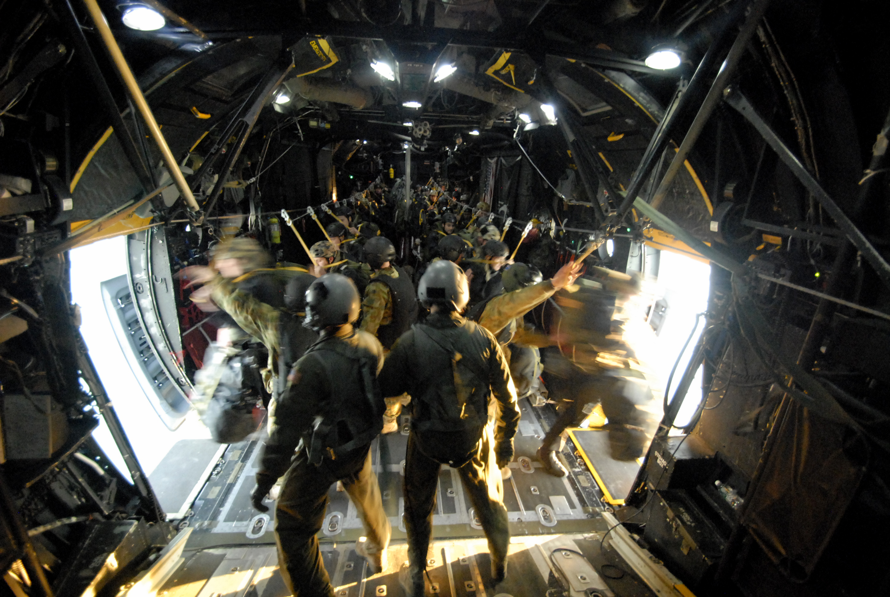 A Force Element from 2nd Commando Regiment, Australian Defence Force dismounting a MC-130 aircraft during an airborne insertion operations over the Great Barrier Reef of the shores of Rockhampton, Australia during Talisman Saber 2011. Australian and U.S. Special Forces worked in a combined-effort during TS11.